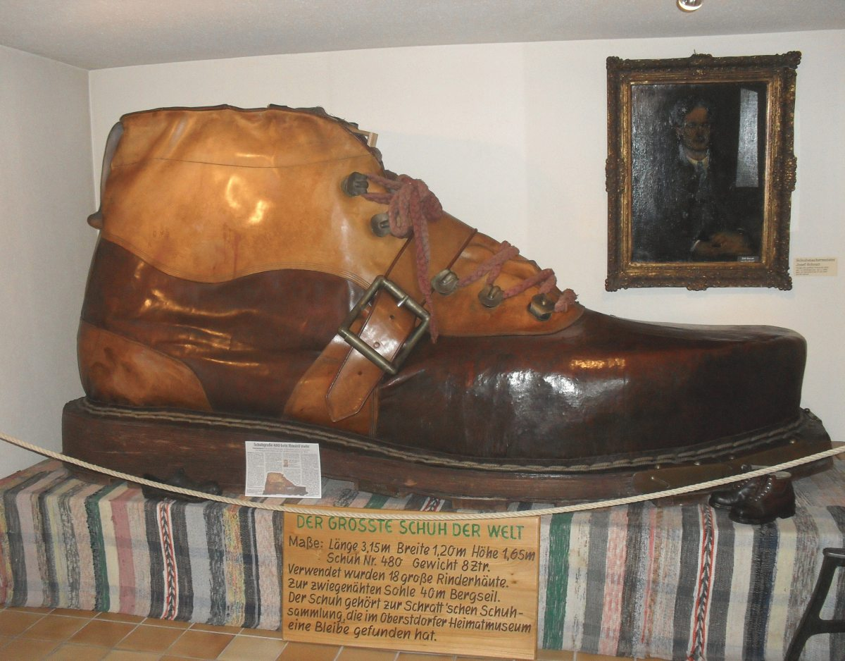 the biggest "leather-Ski boot" in the world